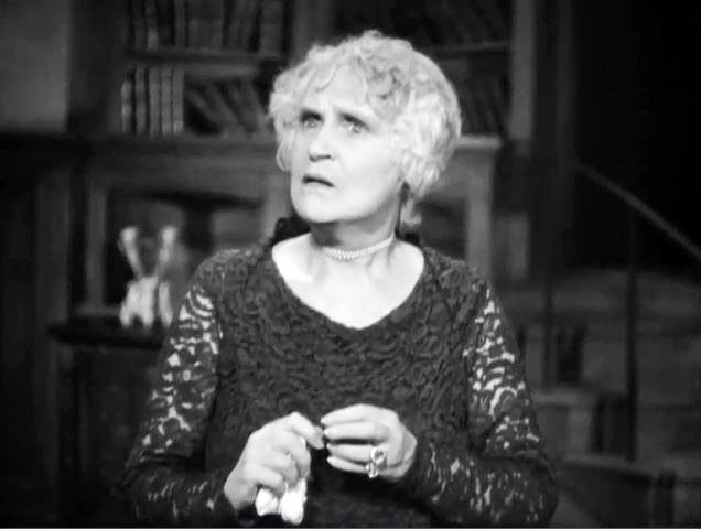 Low resolution screenshot of Henrietta Crosman from the American film Charlie Chan's Secret (1936). The film is in the public domain due to the omission of a valid copyright notice on its original prints.